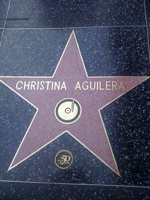 Xtina´s Star on the Walk of Fame, Hollywood.